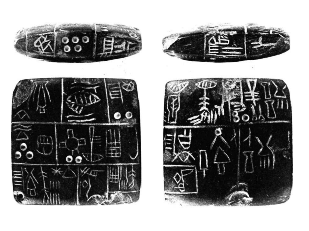 A Sumerian Stone Tablet containing a Locust Charm; unknown origin (p. 30). It was labelled in a 1907 book as "the oldest writing in the world". The tablet records the means taken to rid various tracts of the land of a plague of locust and caterpillars. The last line, "he made it bright," refers to the ceremonial purification of the field.